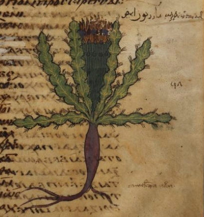 Chamaileon: Parisinus Graecus 2179, Dioscorides, f 11r detail